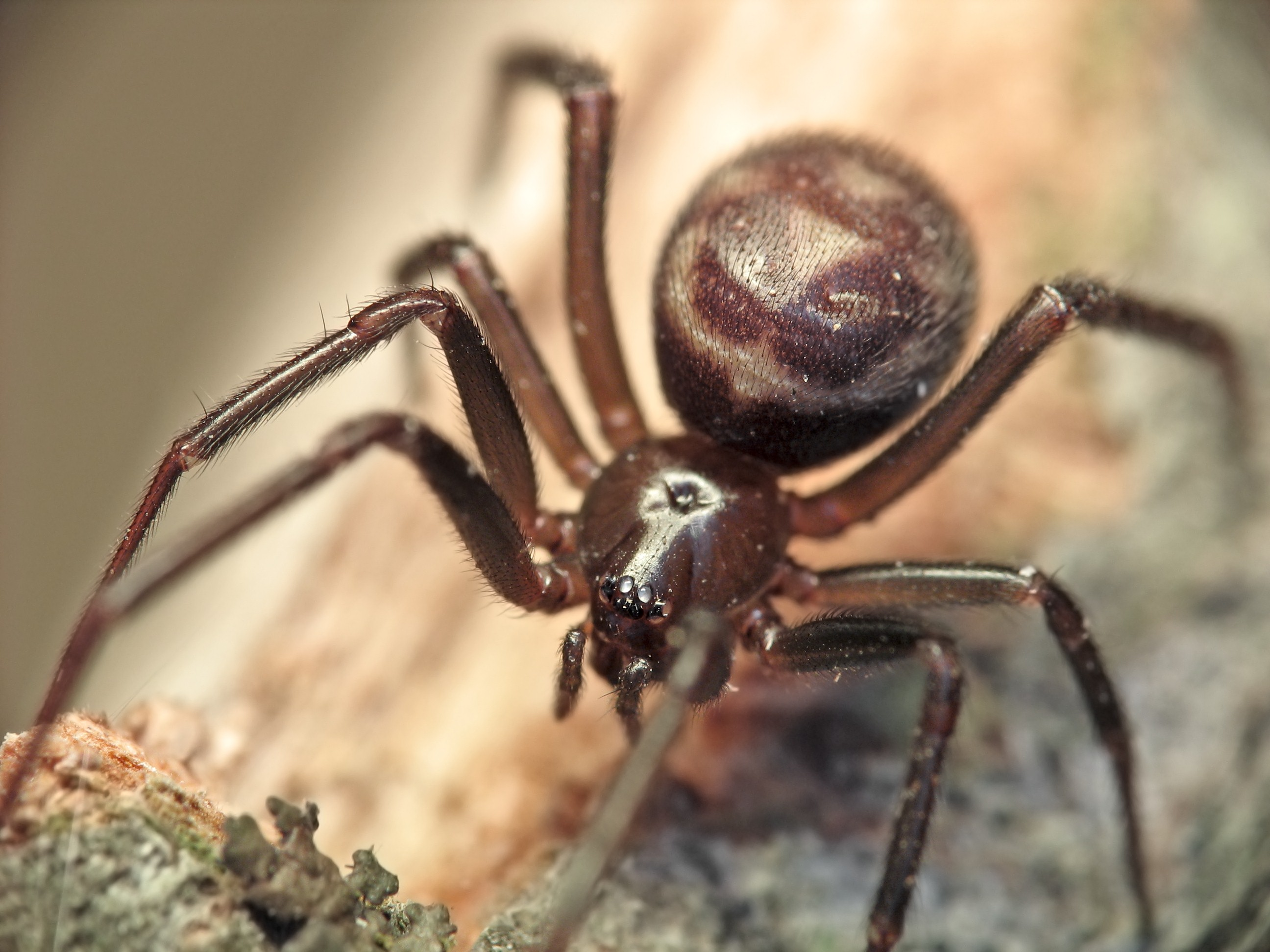 Cobweb spider (family: Theridiidae).